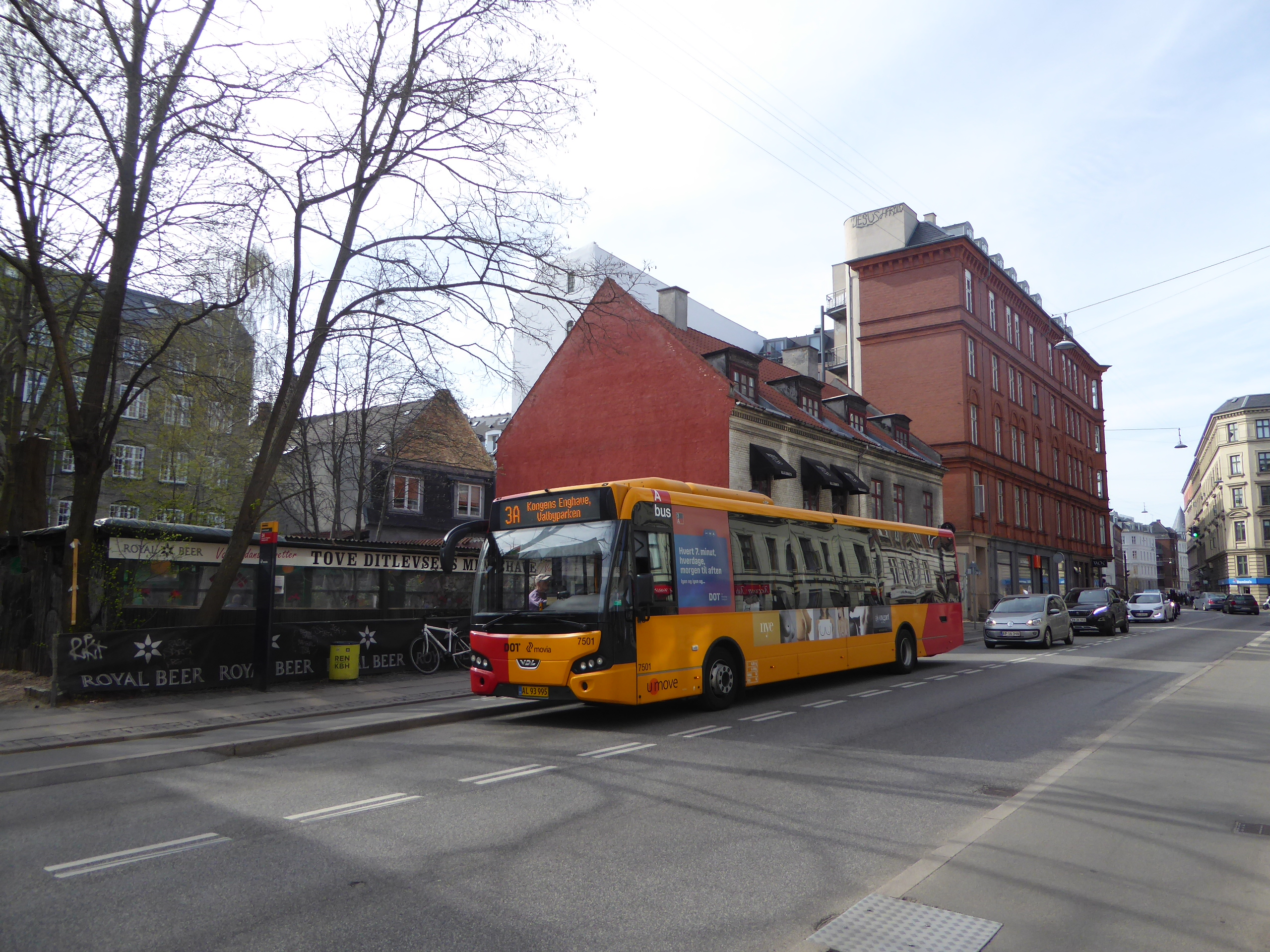 Movia bus line 3A on Enghavevej in Vesterbro in Copenhagen.